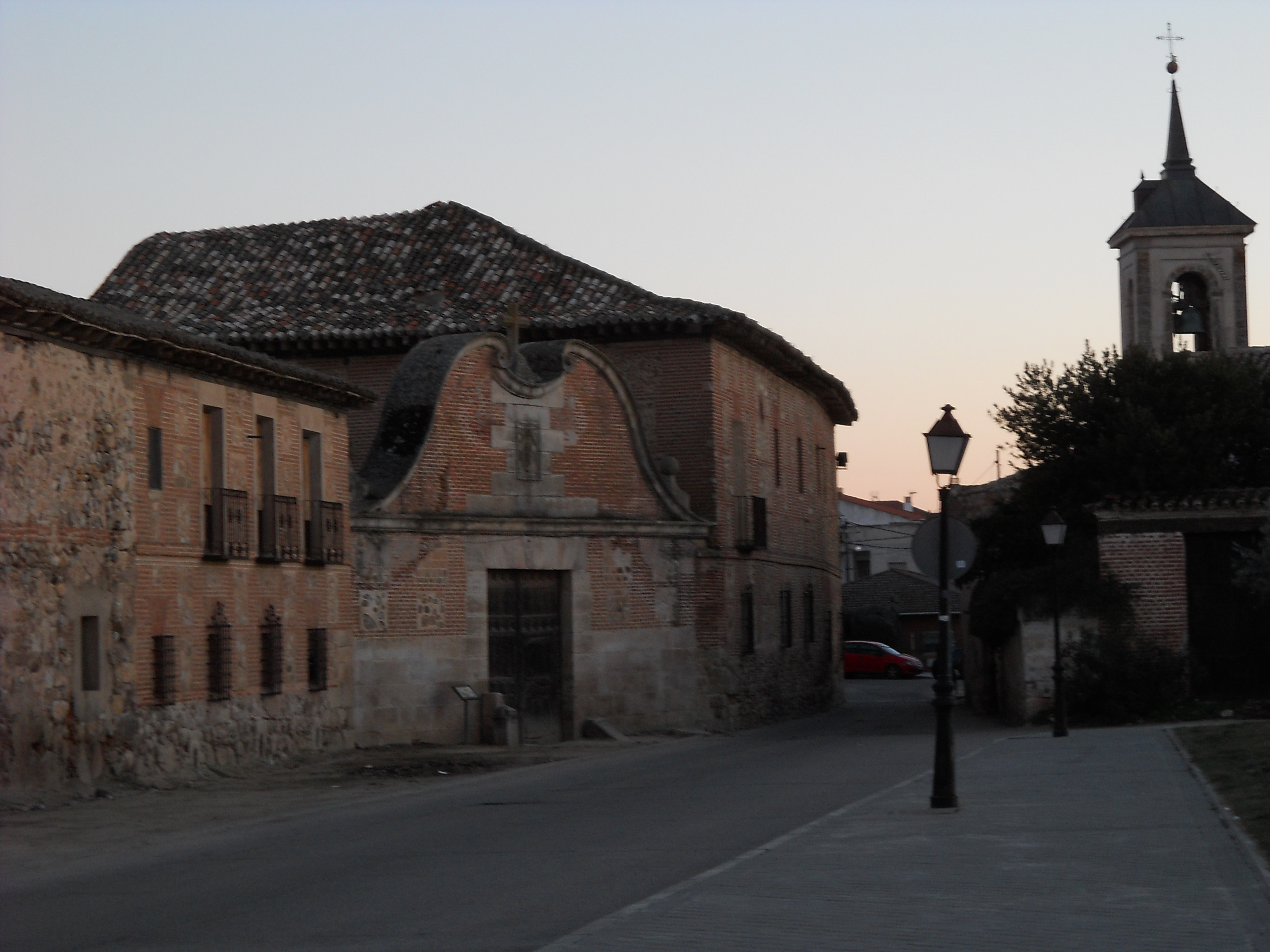 Charterhouse of Talamanca de Jarama, Madrid, Spain